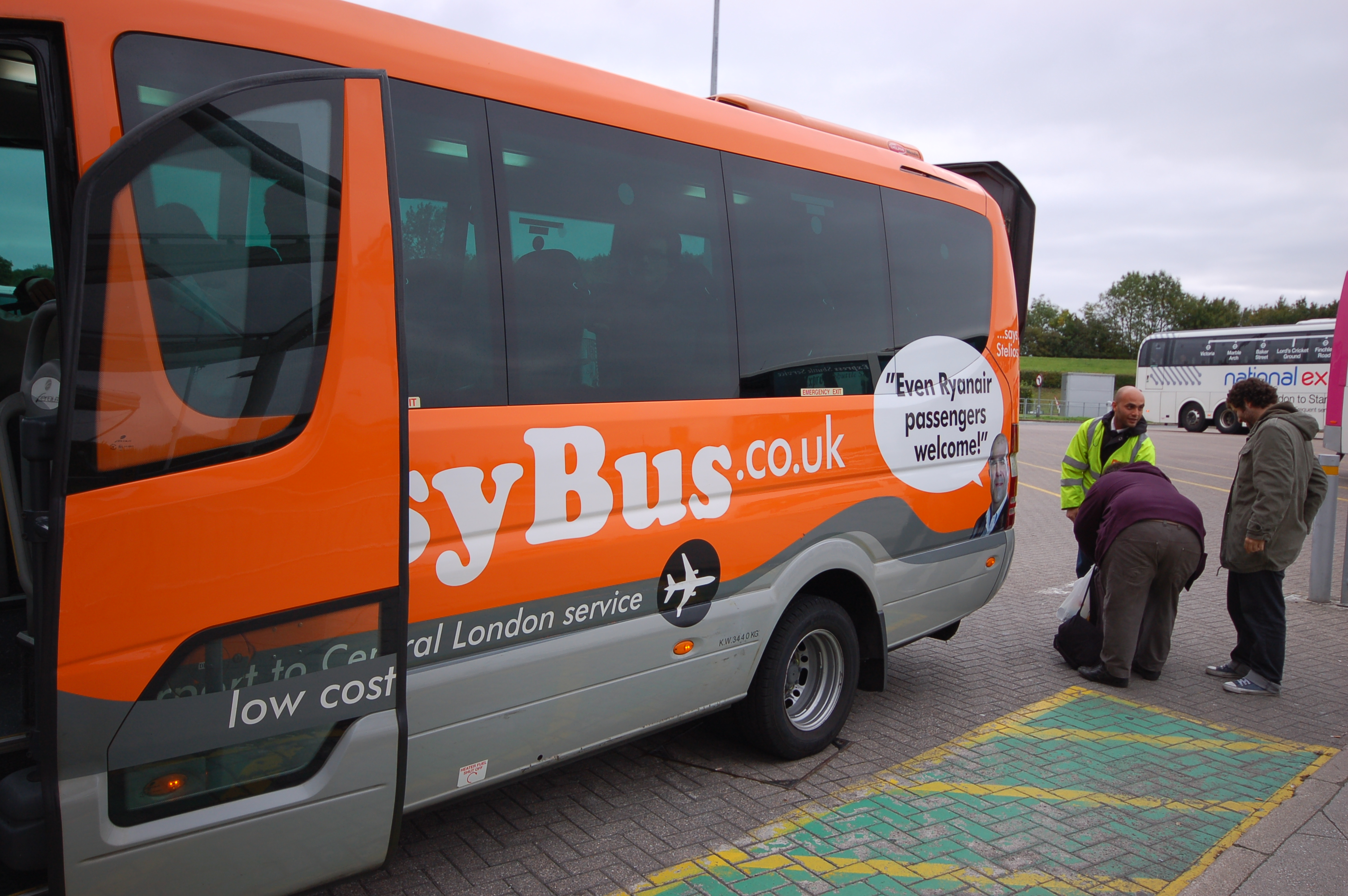 Easyjet shuttle bus to London City at London Stansted Airport